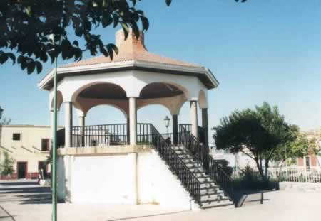 kiosco